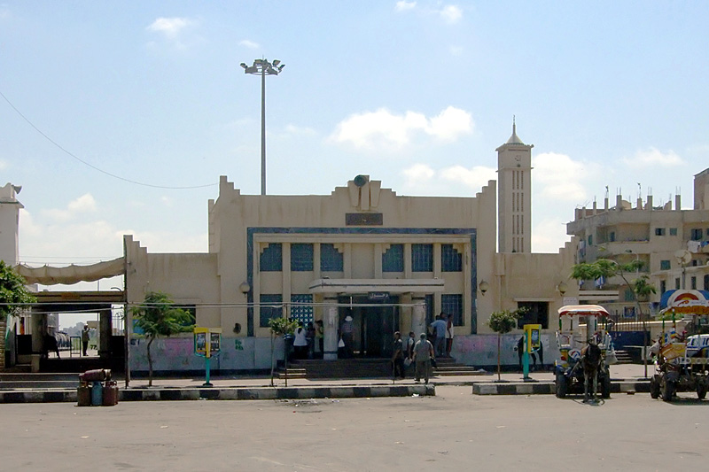 Railway station, Abu Qir, Egypt